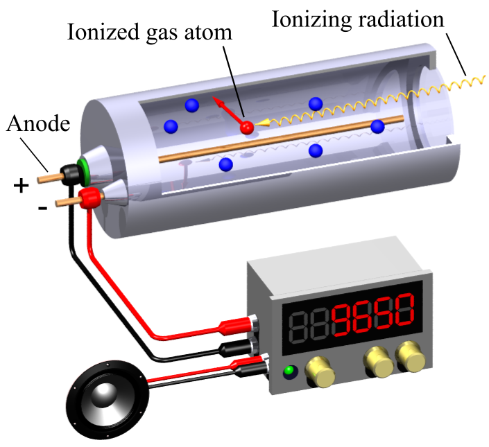 Geiger Muller counter. A detector of radiation levels